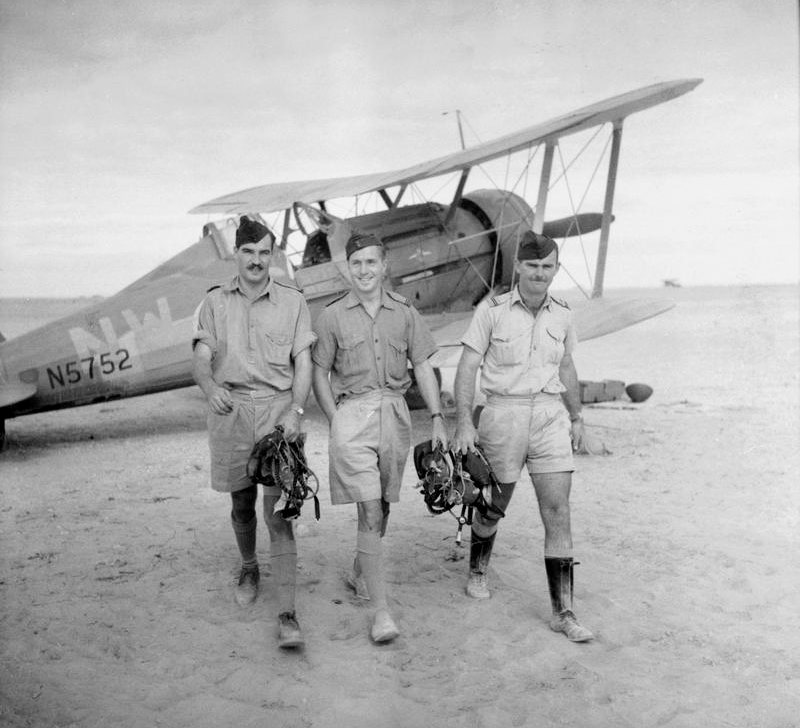 Royal Air Force Operations in the Middle East and North Africa, 1939-1943. Flying Officer A C Rawlinson, Flight Lieutenant B R Pelly and Flying Officer A H Boyd of No. 3 Squadron RAAF, walk away from Gloster Gladiator Mark II, N5752 'NW-G', at LG 10/Gerawala, Egypt, on the day following their major engagement with 17 Italian fighters over Bir Enba, Libya, during which a fourth pilot, Squadron Leader P R Heath, was shot down and killed. Boyd scored three victories in N5752 before it was shot down by Italian fighters near Sollum on 13 December 1940.